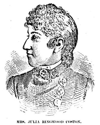 Julia Ringwood Coston